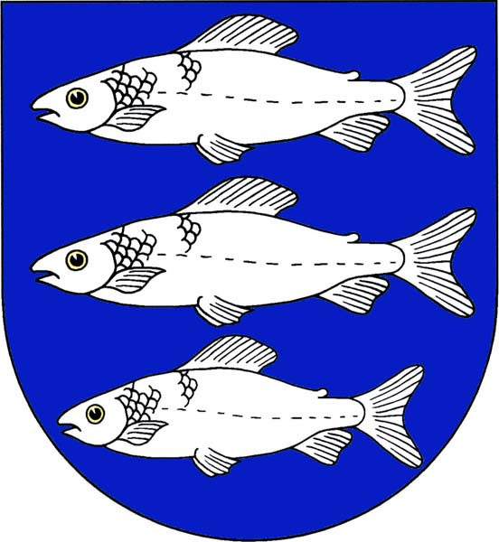 Municipal coat of arms of Aš town, Cheb District, Czech Republic.